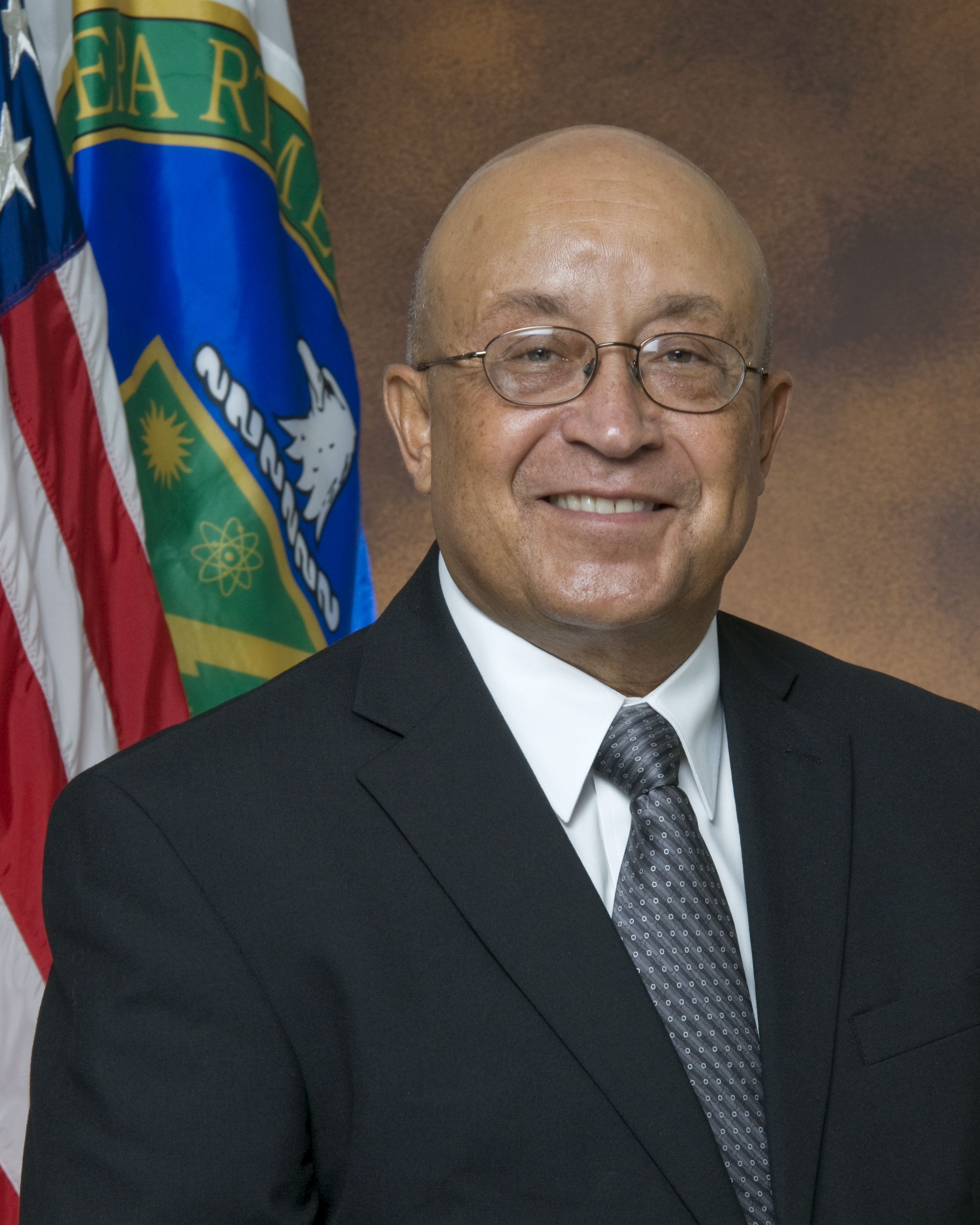 Depicted person: Warren F. Miller, Jr. – American engineering scientist